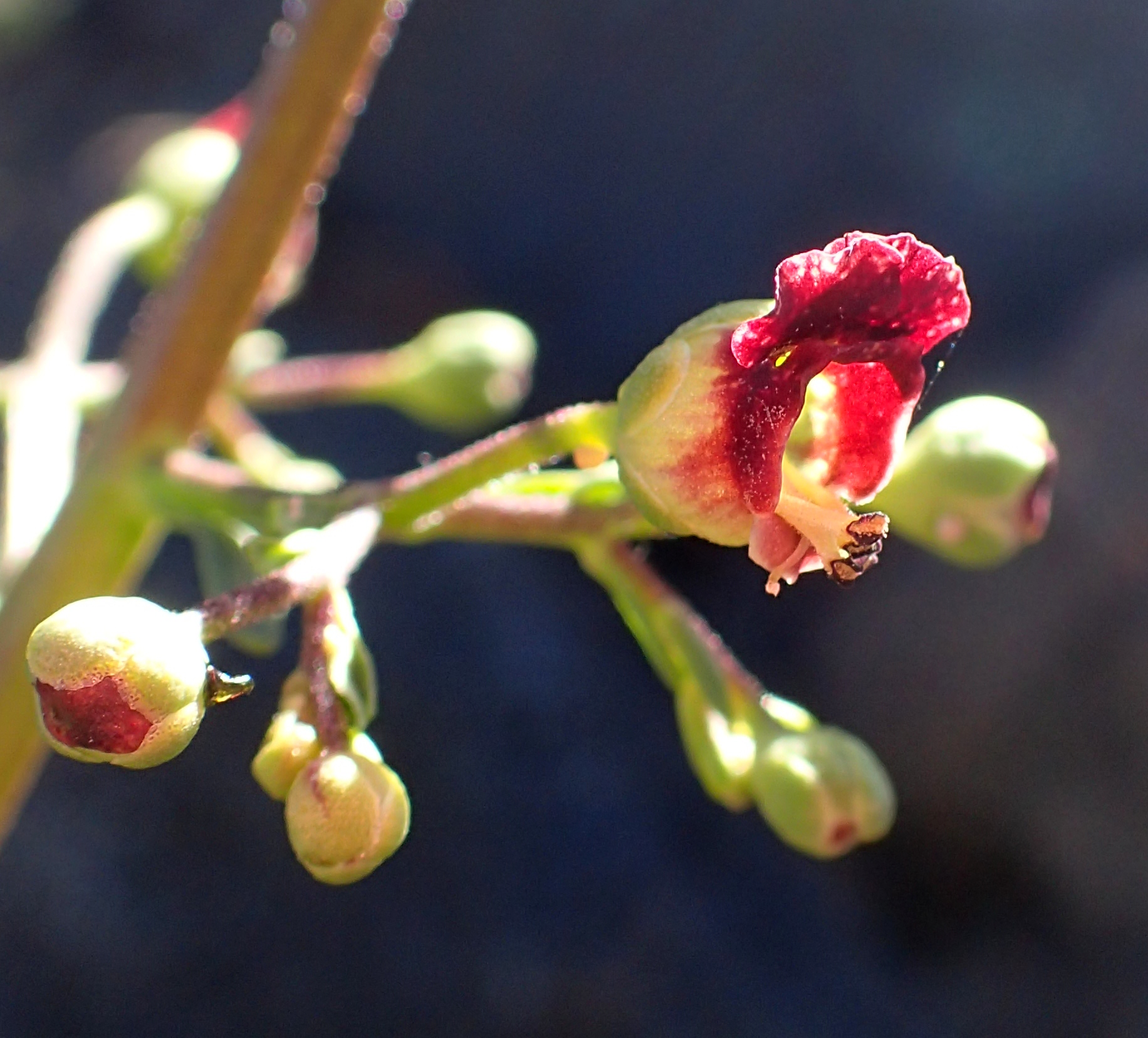 Scrophularia glabrata in Mancha Redonda, Tenerife, Canary Islands